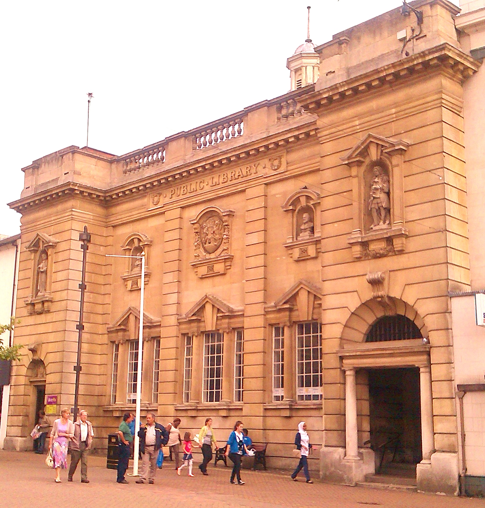 Northamptonshire Central Library, Northampton, England